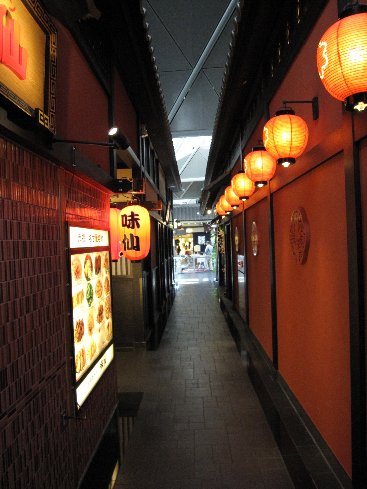 Chubu International Airport